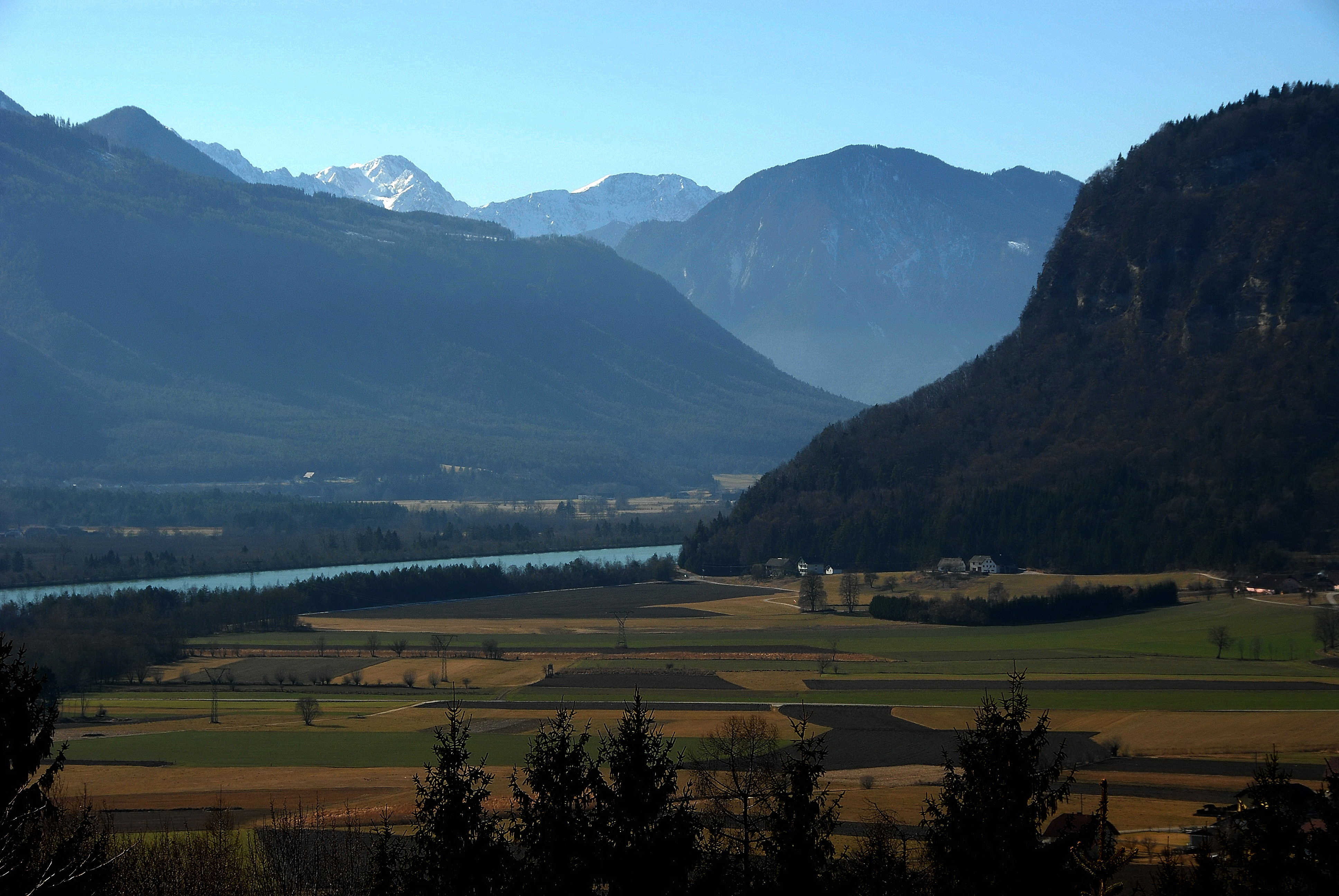 View of the lower Rosental valley and the “Hochstuhl” (highest mountain in the Karawanken mountain range, left of the center) near the village Rottenstein, community Ebenthal, Klagenfurt-Land, Carinthia, Austria.